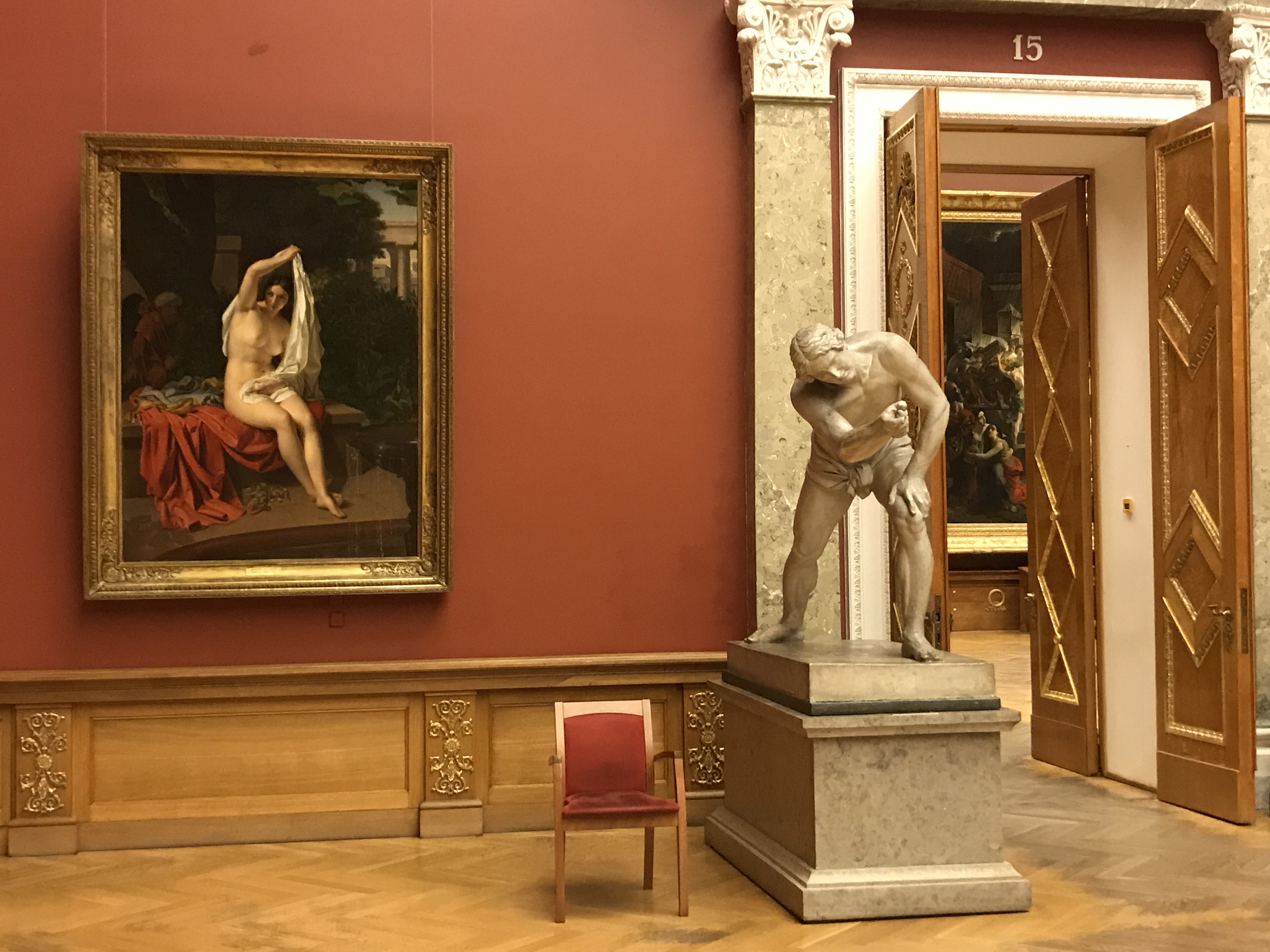 "Susanna caught by the elders" (painting by Grigory Lapchenko, 1831) in the State Russian Museum